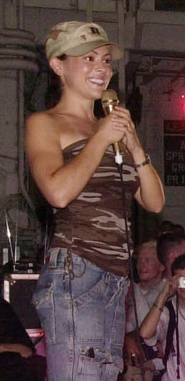 030619-N-2143T-003 The Arabian Gulf (Jun. 19, 2003) -- Actress Alyssa Milano speaks to sailors at the United Service Organization (USO) show during a visit aboard USS Nimitz (CVN 68). Nimitz Carrier Strike Group and Carrier Air Wing Eleven (CVW-11) are deployed in support of Operation Iraqi Freedom. U.S. Navy photo by Airman Maebel Tinoko. (RELEASED) Note that image has been cropped to focus on Milano. This is permitted under United States Department of Defense guidelines, so long cropping is the sole alteration and no colors are changed.